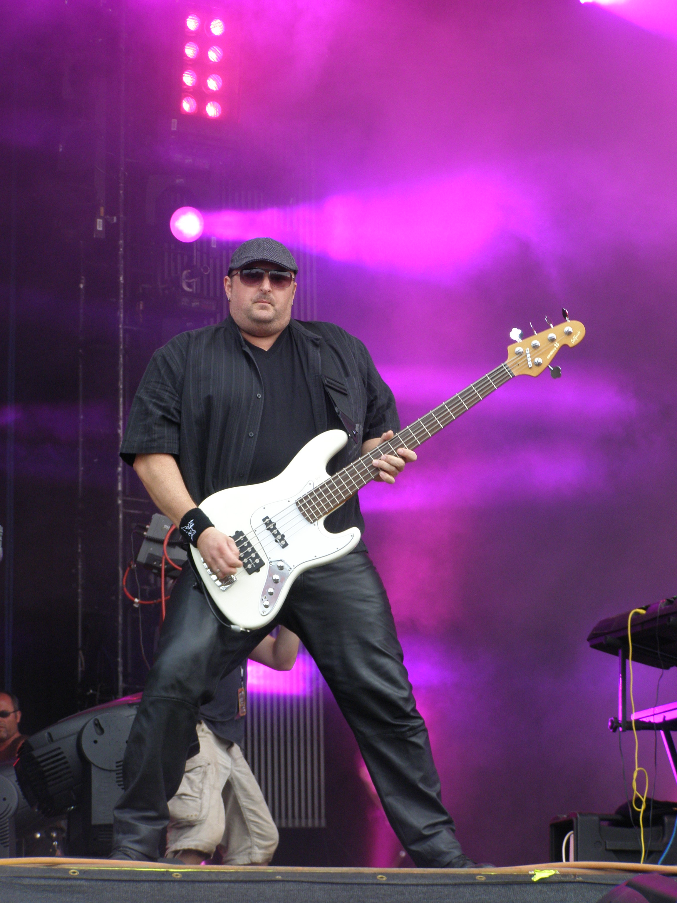 Volker Krawczak in 2009